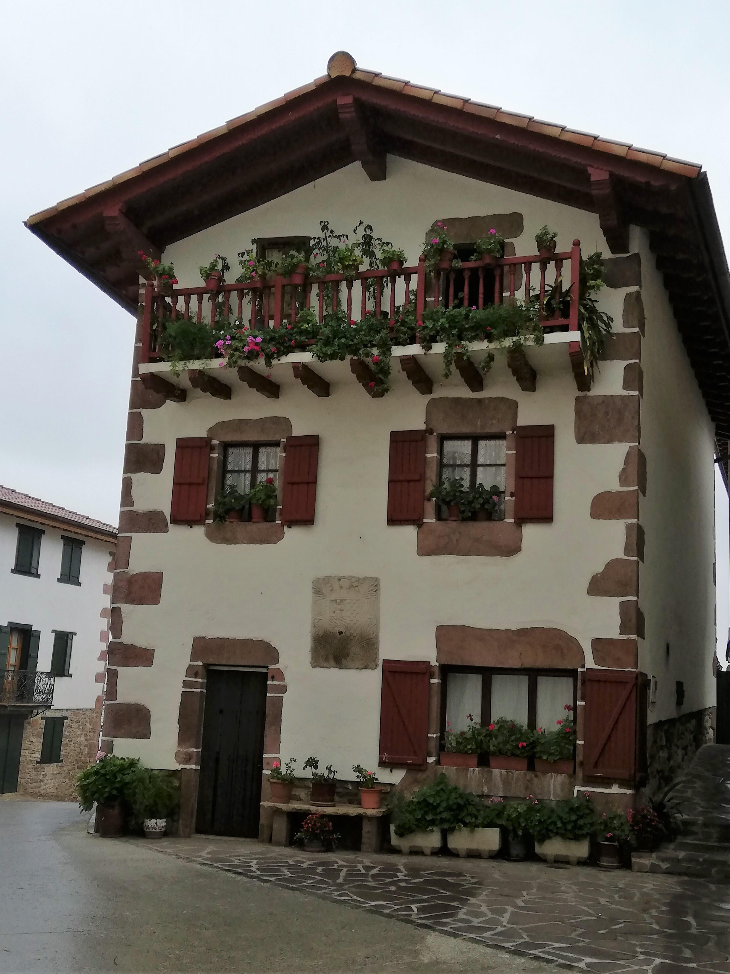 It shows a coat of arms of Gipuzkoa which makes it original.